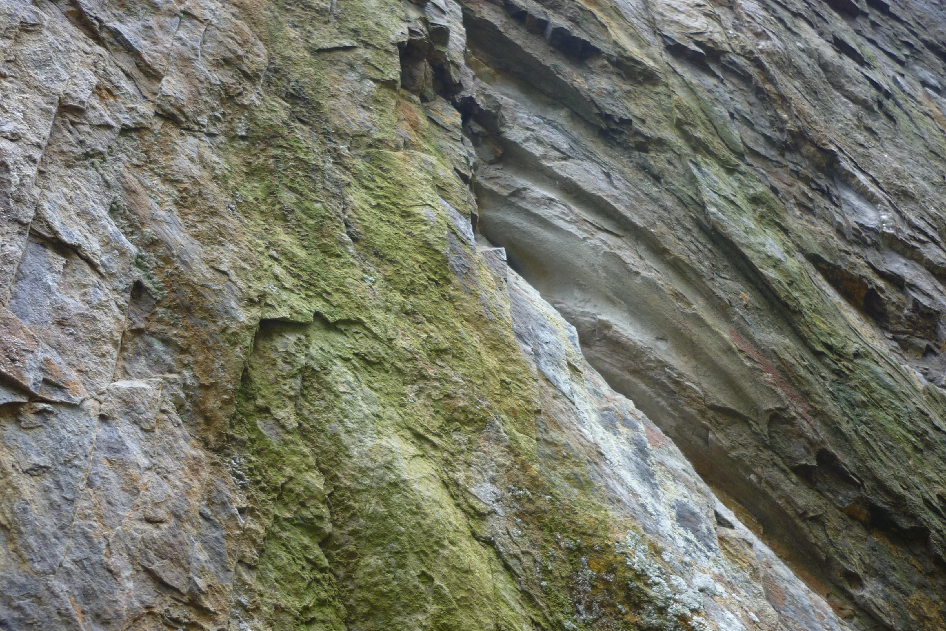 Stone guarry near Starkoc in natural monument Starkočský lom in Kutná Hora District, Czech Republic